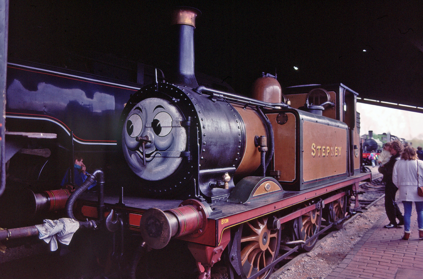 Aparently this terrier inspired the Rev. Awdrey to write his famous "Thomas" stories. Stepney reposes on shed on the Bluebell railway.